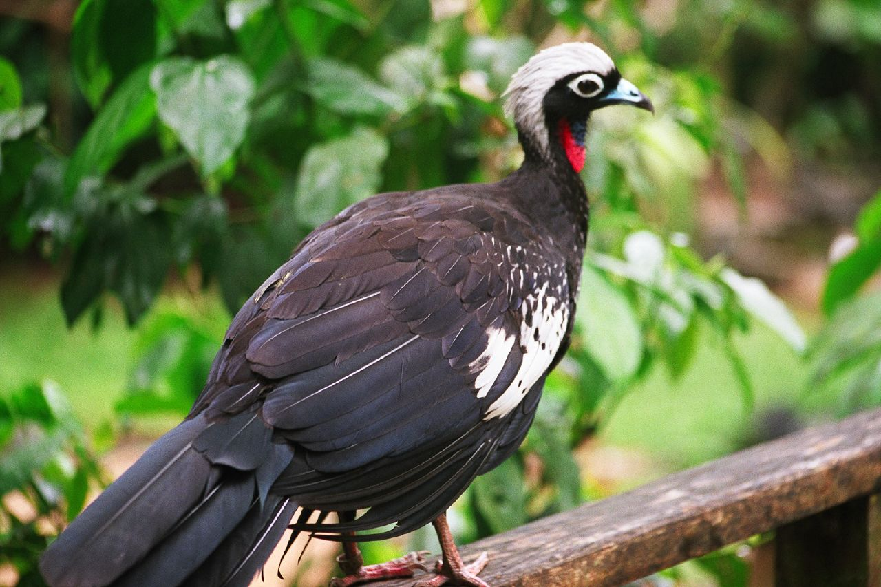 Black-fronted Piping-guan at Parque das Aves, Brazil.